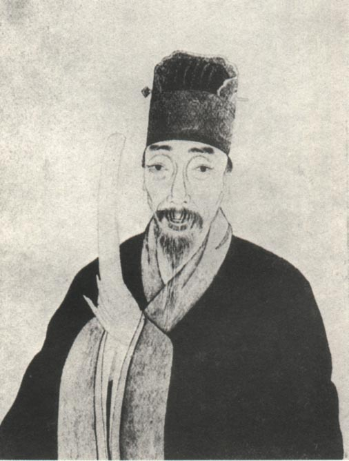 Liu Zongzhou, philosopher and writer of late Ming Dynasty.